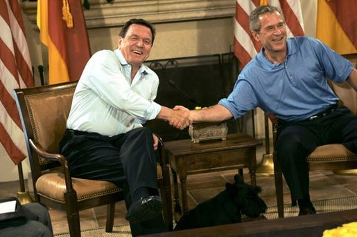 Gerhard Schröder and George W. Bush shaking hands in the Oval Office, White House.